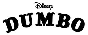 dumbo logo